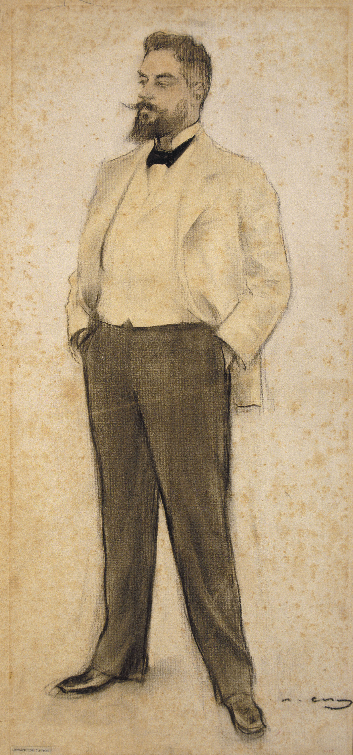 Portrait by Ramon Casas conserved at MNAC in Barcelona.